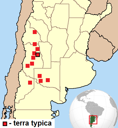 Tympanoctomys barrerae range made using informations from Ojeda, Milton H. Gallardo, Fredy Mondaca, Ricardo A. Ojeda. NUEVOS REGISTROS DE Tympanoctomys barrerae (RODENTIA, OCTODONTIDAE). „Mastozoología Neotropical”. 14(2), ss. 267-270, 2007. ISSN 1666-0536, AGUSTINA A. OJEDA Phylogeography and genetic variation in the South American rodent Tympanoctomys barrerae (Rodentia: Octodontidae). Journal of Mammalogy, 91(2):302–313, 2010 and topography from the File:Argentina provinces, blank.png by User:Ahoerstemeier and File:Argentina (orthographic projection).svg by User:Dexxter